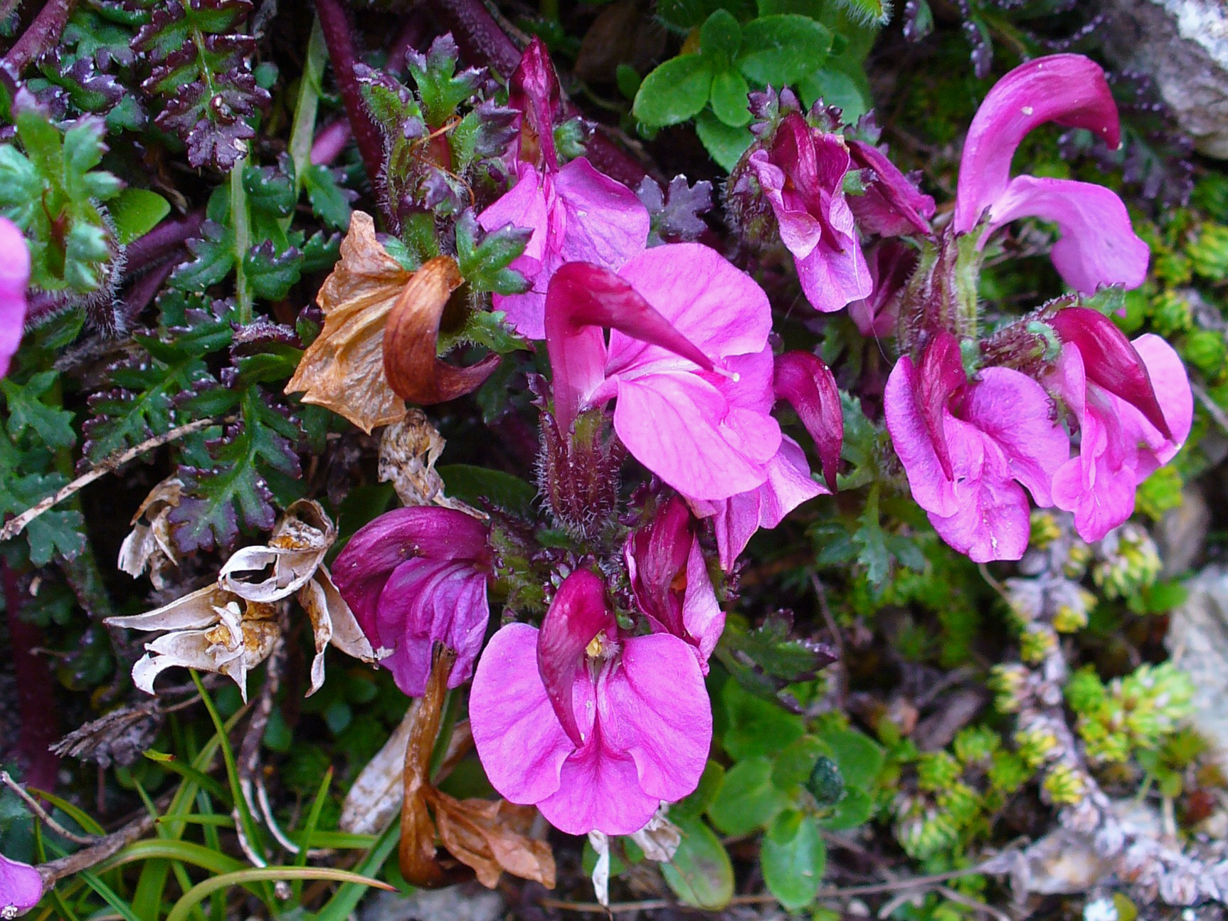 Pedicularis kerneri, Orobanchaceae, Kerner’s Lousewort, flowers; Diavolezza, Engadin , Switzerland, altidude ca. 3.000 m.